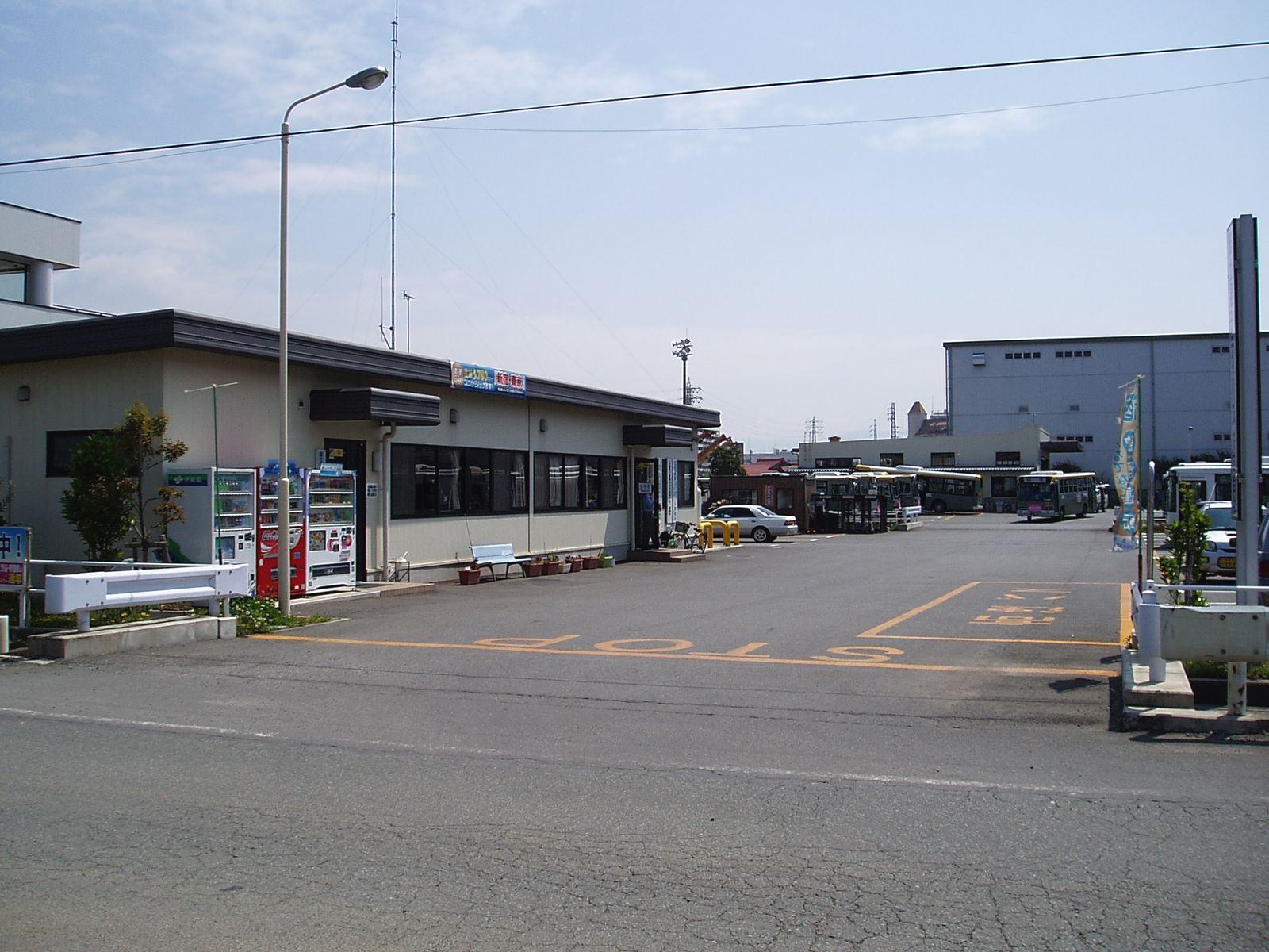 Fujikyu City Bus Honsha Branch